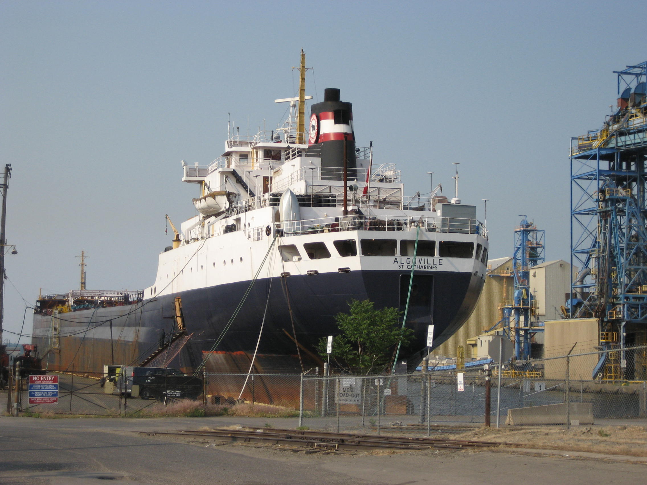 Hamilton Port Authority, Burlington & Wellington Streets, Hamilton, Ontario